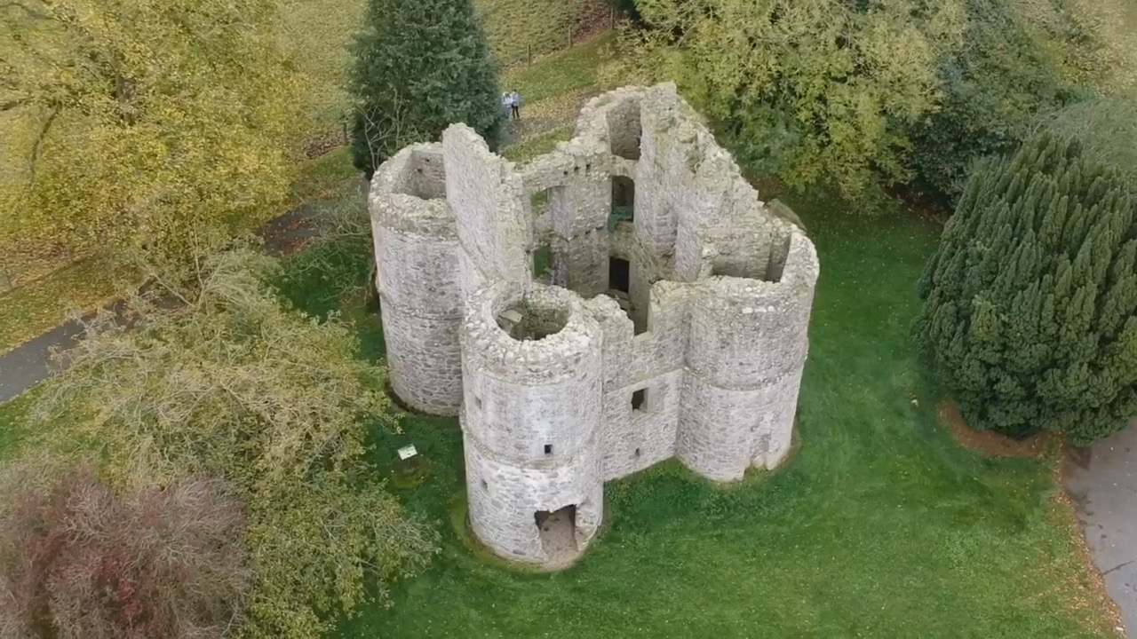 Roughan Fort, sometime also referred to as Roughan Castle, picture taken by drone.